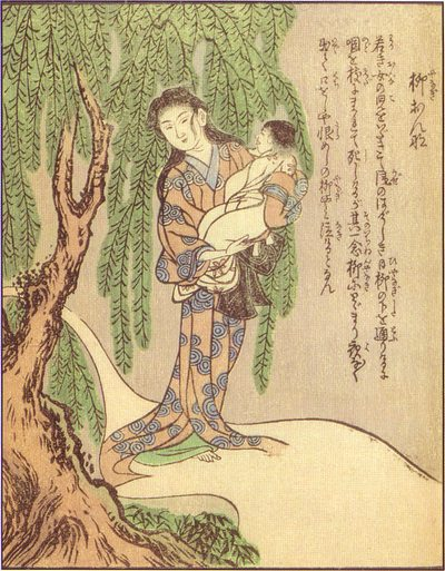 Yanagi-onna (柳女, a willow woman) from the Ehon Hyaku monogatari (絵本百物語)